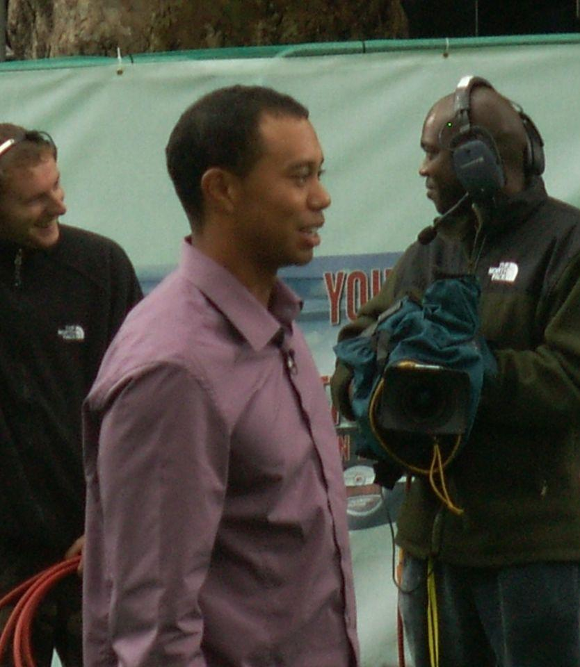 Tiger Woods doing a photo shoot.